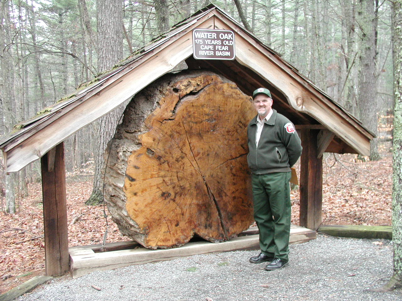 Tuttle Educational State Forest Lenoir (Caldwell County, N.C.) This exhibit is located on one of the many hiking trails at Tuttle